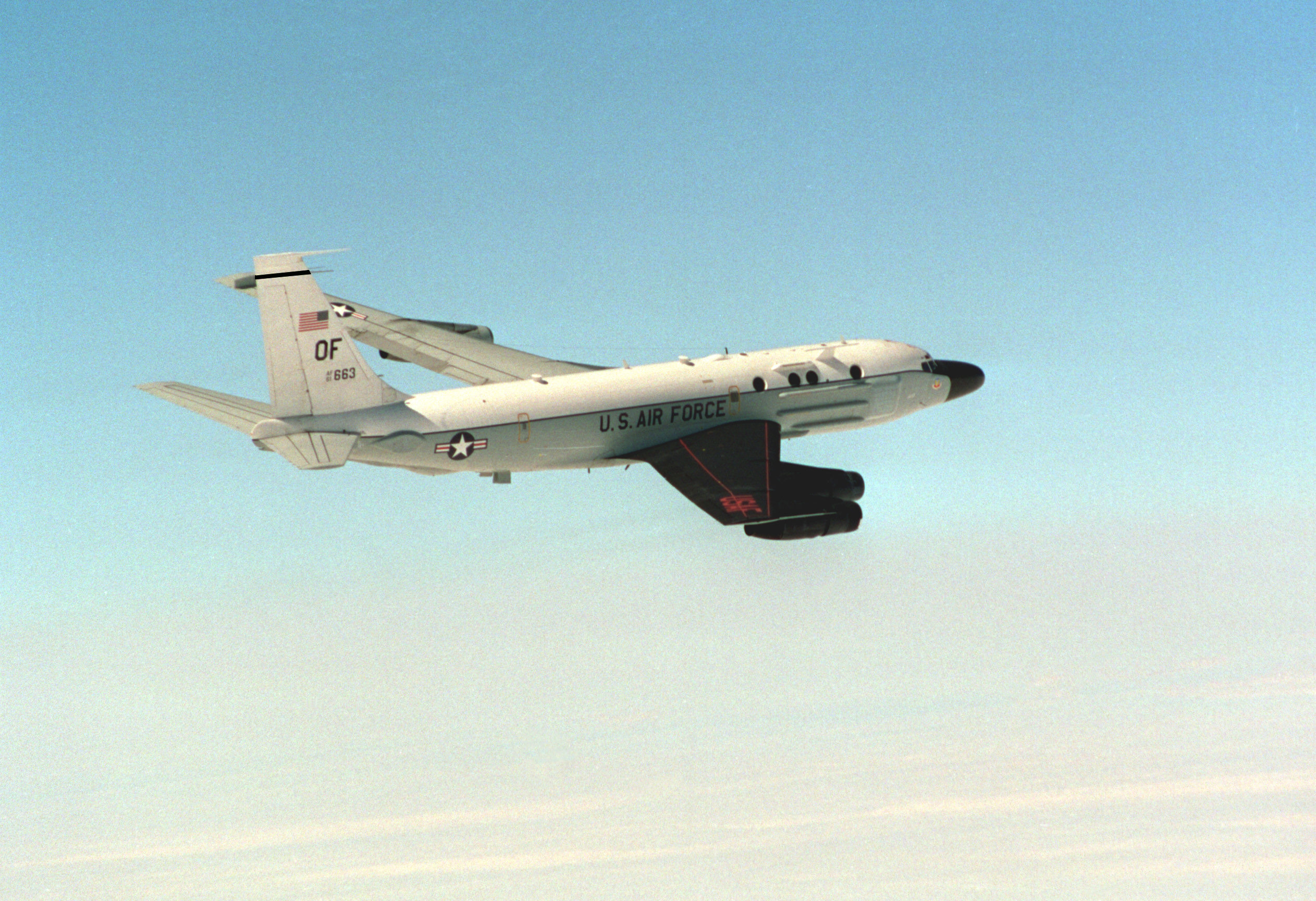 U.S. Air Force RC-135S COBRA BALL aircraft.